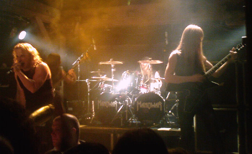 American heavy metal band Manowar in der Fabrik in Hamburg